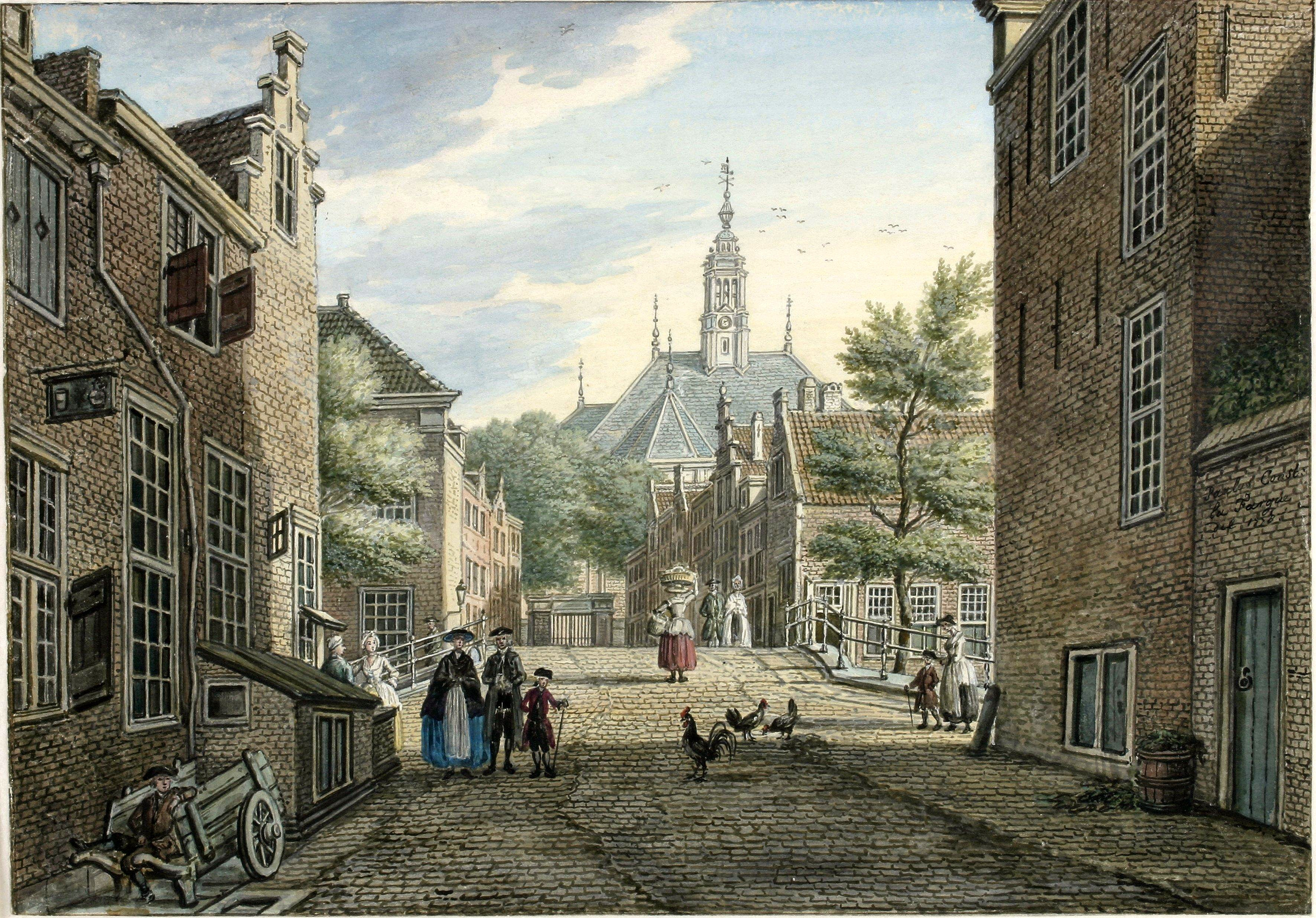 View of the Kranestraat, seen from the Bierkade towards the Amsterdamse Veerkade, with in the background the Nieuwe Kerk (New Church), in The Hague, 1778, by Paulus Constantijn la Fargue